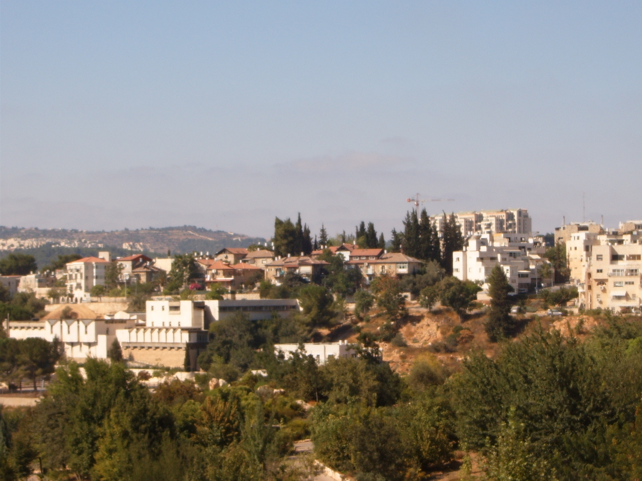 Jerusalem Botanical Gardens (view from house in Nayot, Yehuda Burla Street). In the backgroud : Givat Mordechai. S3700010 Jerusalem